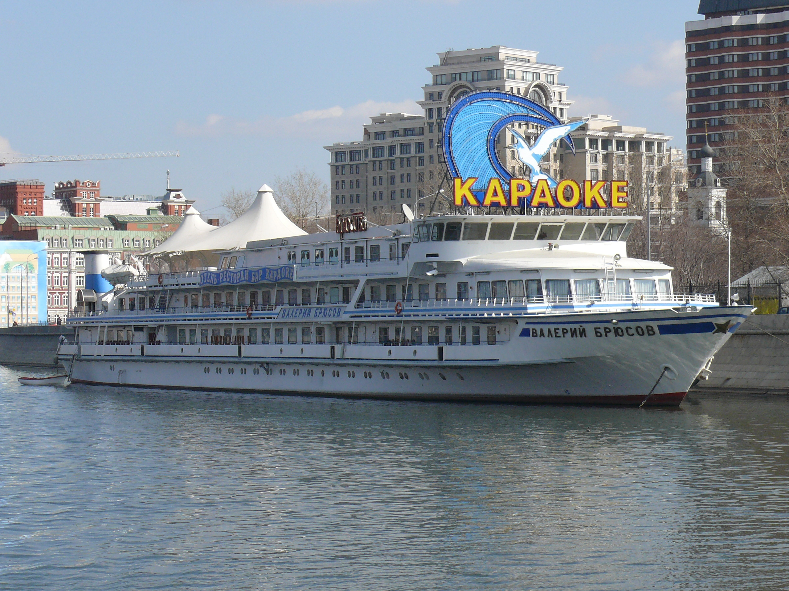 River cruise ship Valeriy Bryusov in Moscow